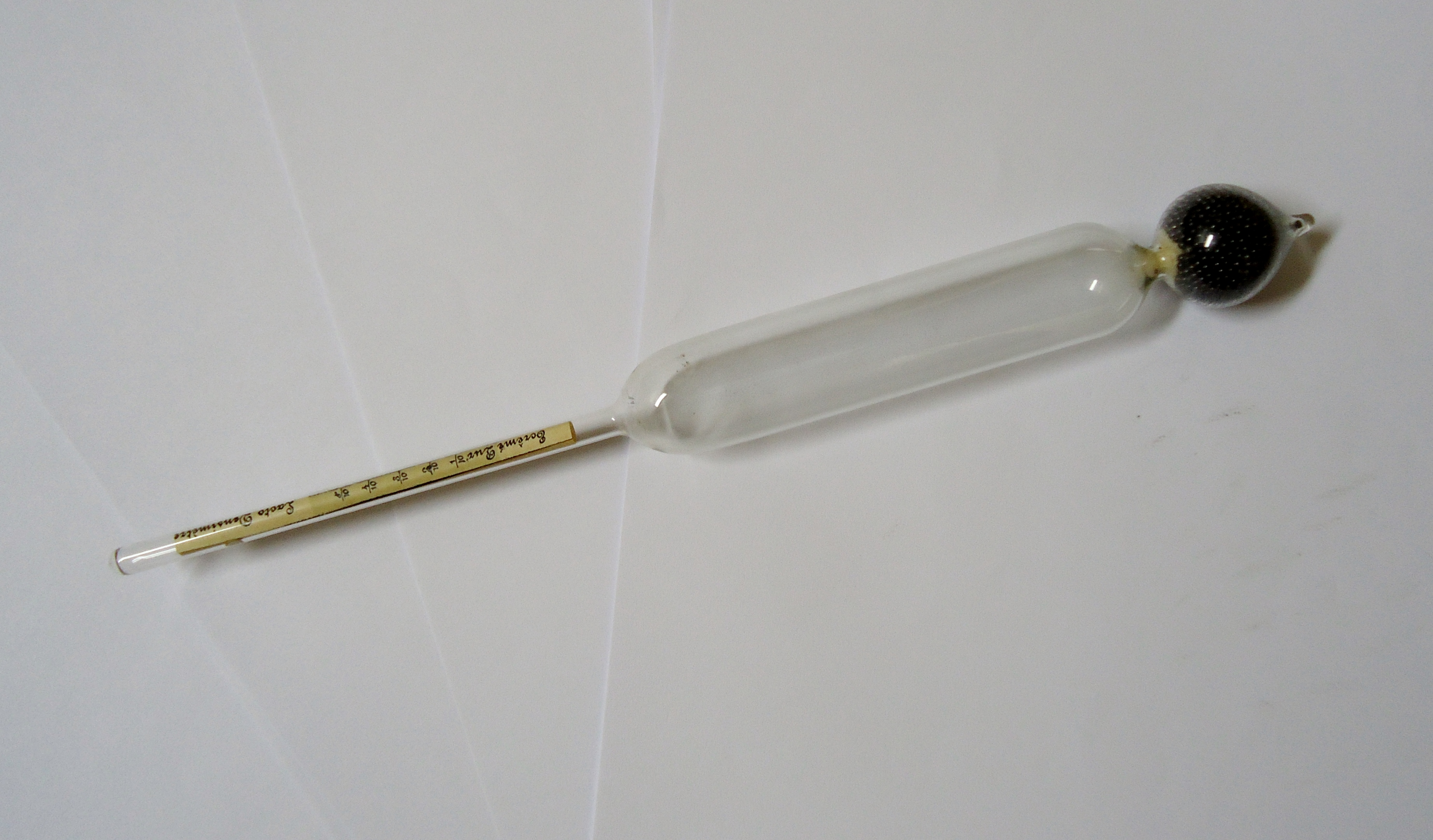 Lactometer (or lactodensimeter); length 24 cm. France, 19th century